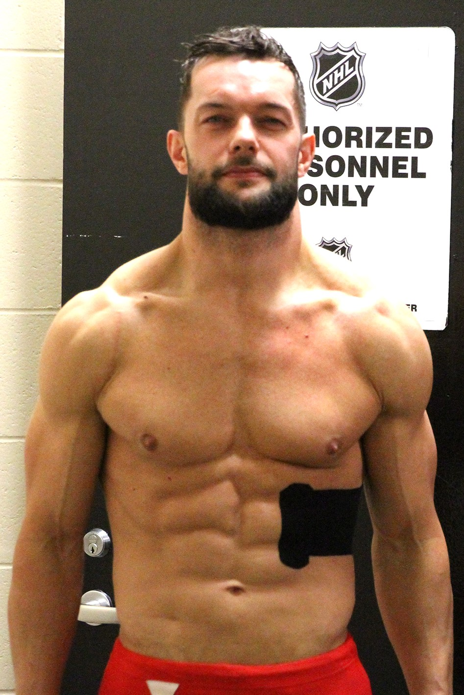 Finn Bálor backstage at WWE Show